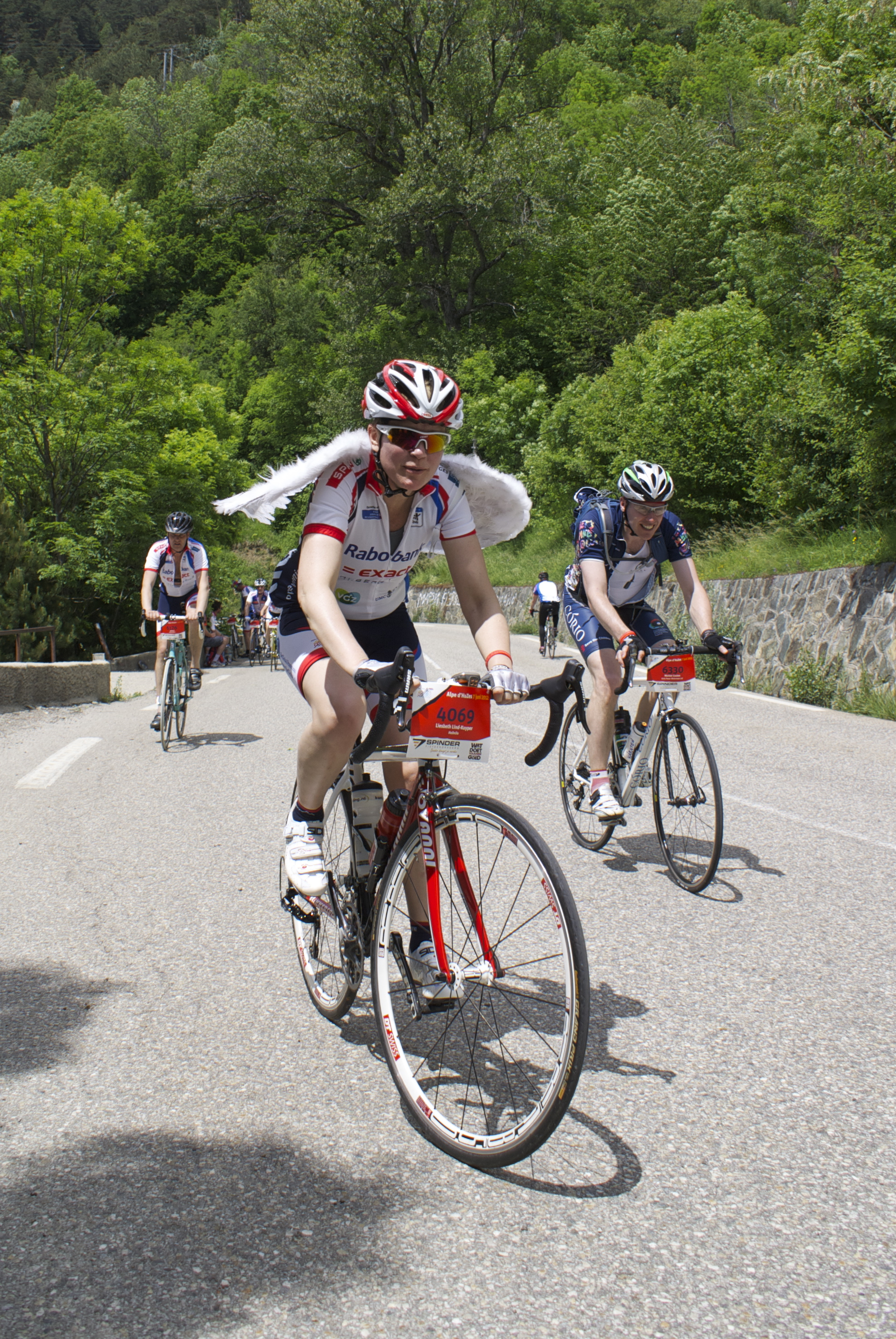 Participants in the 2012 edition of Alpe d'HuZes a cancer fundraiser, where participants climb the Alpe d'Huez mountain several times consecutively.